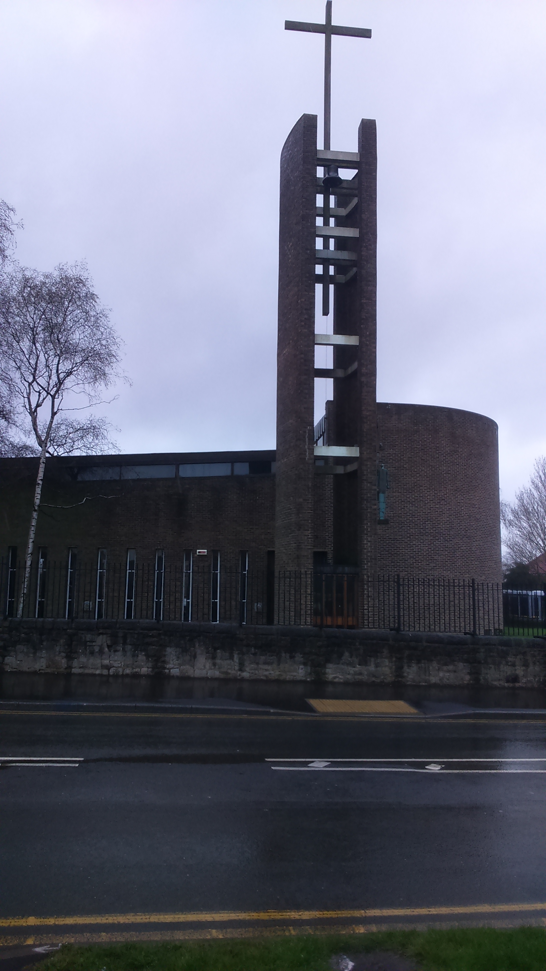 Tower and apsidal chancel of the parish church of St Catherine of Siena, Richmond Road, Sheffield, South Yorkshire, seen from the southeast